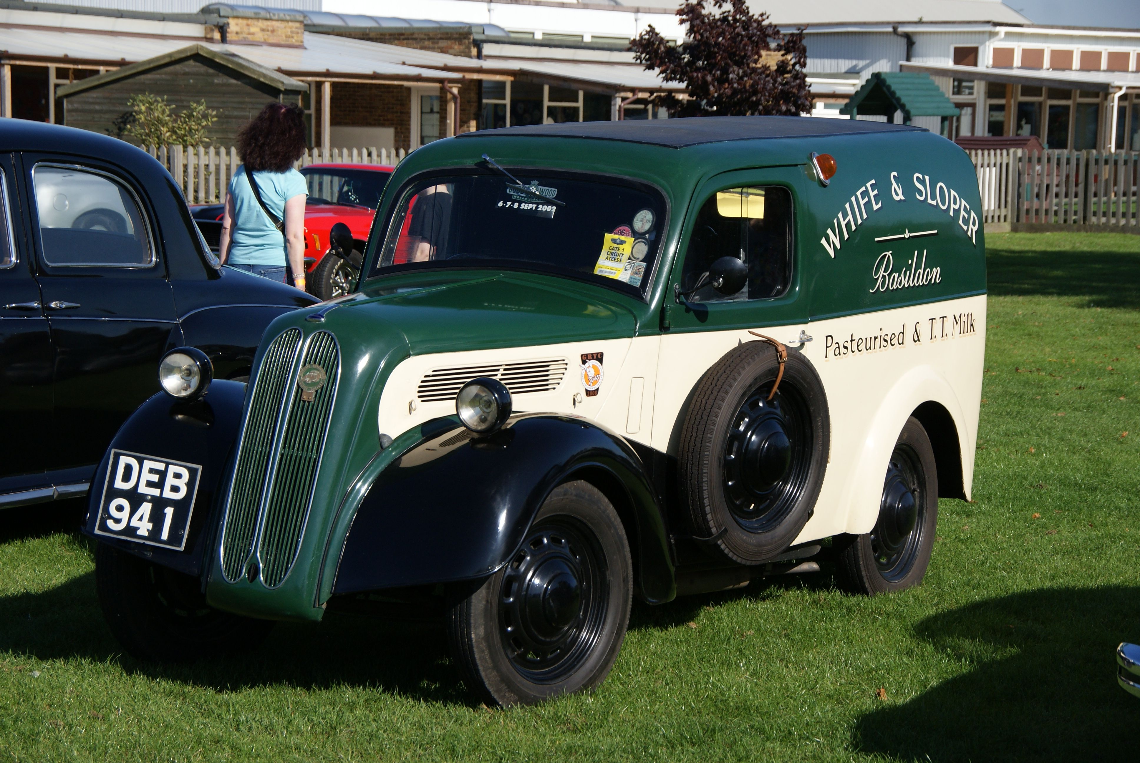 Thames E494C